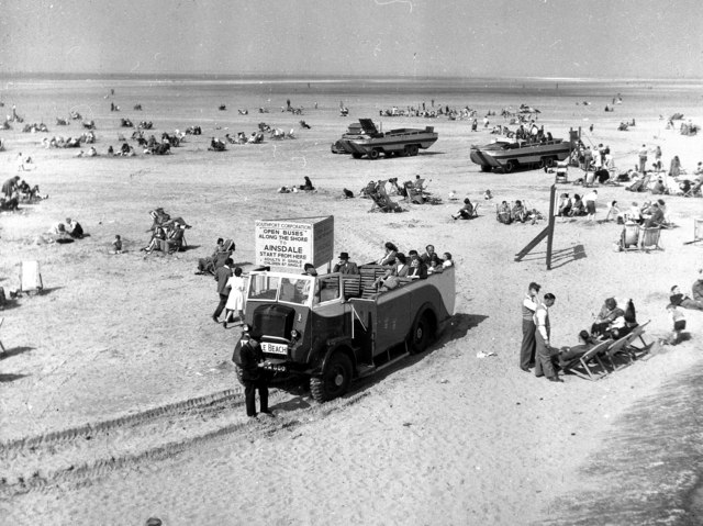 Varied transport on Southport beach Centre of the picture is one of the open buses (built, actually, on lorry chassis) that used to operate along the sands to Ainsdale beach. It was a bumpy and jerky but enjoyable ride. Further back on the sand are seen two DUKWs, or 'Ducks', as they were affectionately called. These amphibious vehicles gave you ride on the sand AND a trip on the water. All around we see holidaymakers enjoying the good weather, for this was before the days of mass tourism to such places as Spain or Tunisia.